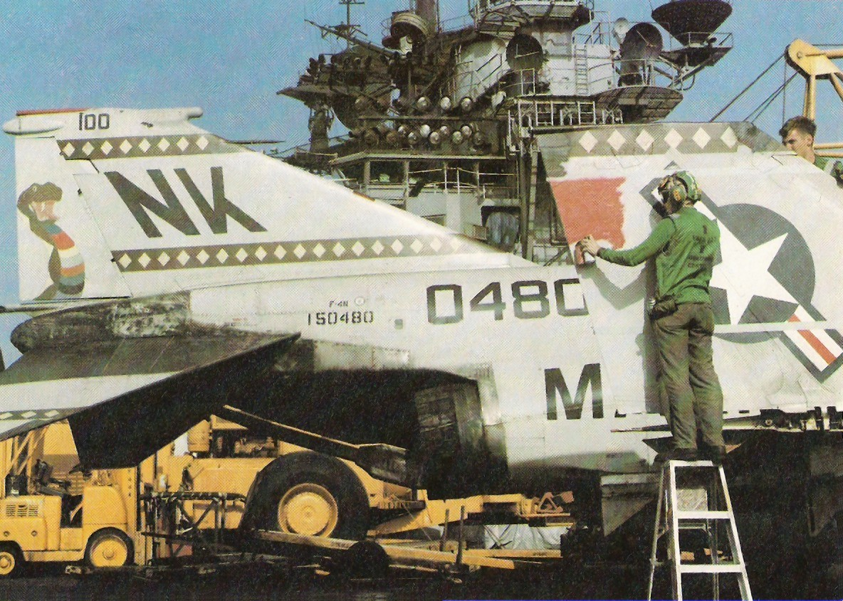 A U.S. Marine Corps McDonnell F-4N Phantom II aircraft (BuNo 150480) of Marine fighter-attack squadron VMFA-323 Death Rattlers on the aircraft carrier USS Coral Sea (CV-43) in April 1980. Sailors are applying black-red-black identification stripes for the (later aborted) attempt to rescure U.S. hostages from Iran, code named "Operation Eage Claw" (or "Evening Light").